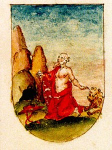 Emblem of Hermits of St. Jerome, by Fontana, in Insegne di varii prencipi et case illustri d'Italia e altre provincie, ms. in Biblioteca estense universitaria, Modena, (1605)